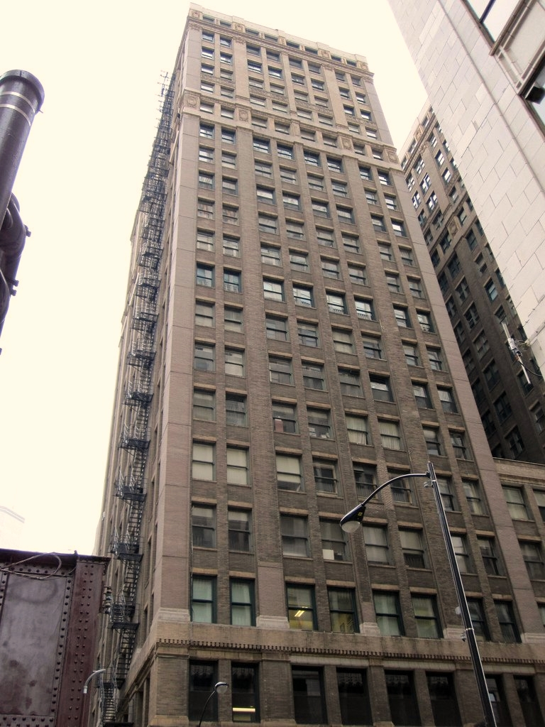 Garland Building (111 N. Wabash Avenue, Chicago)